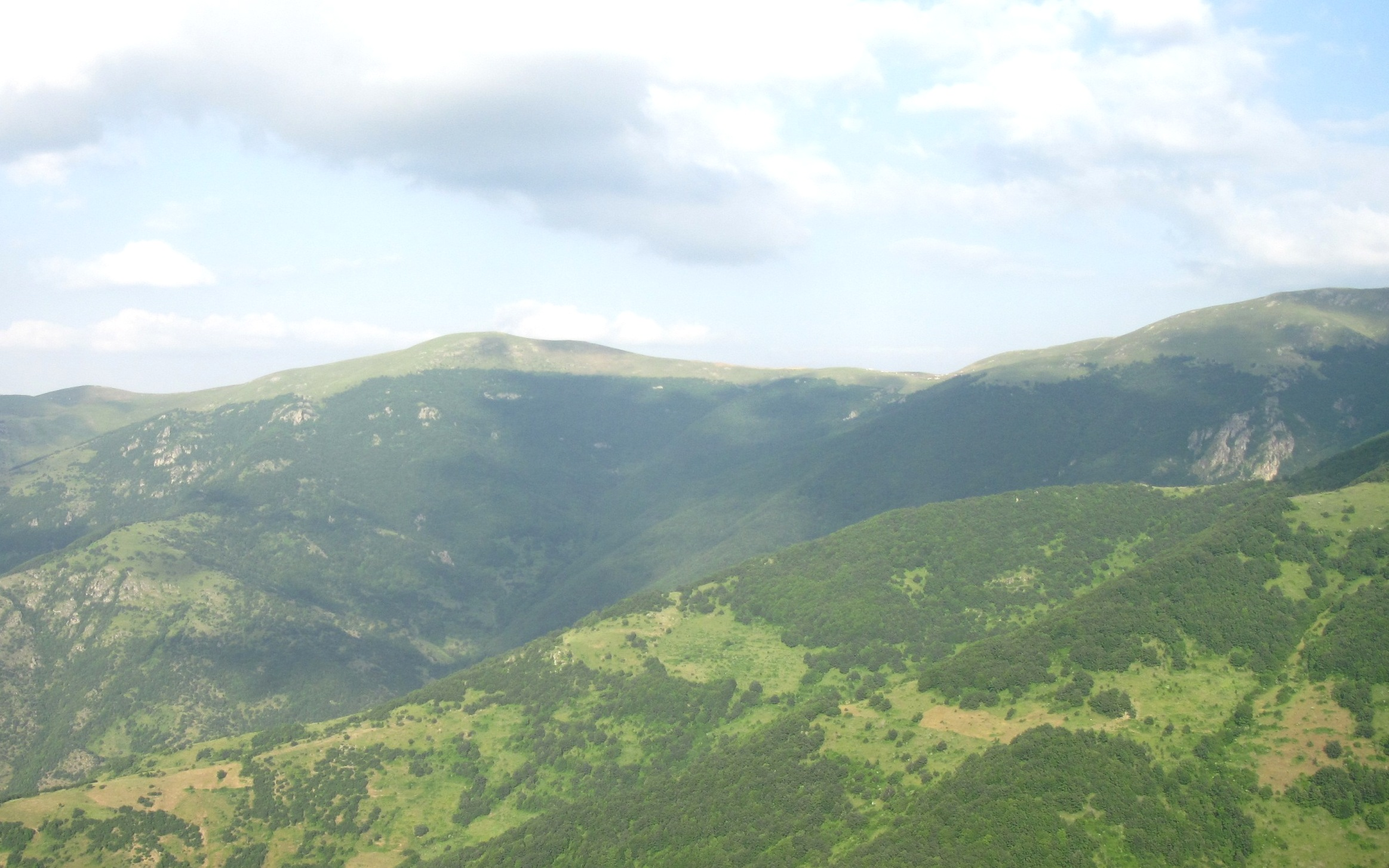 For Chaparli wikipage